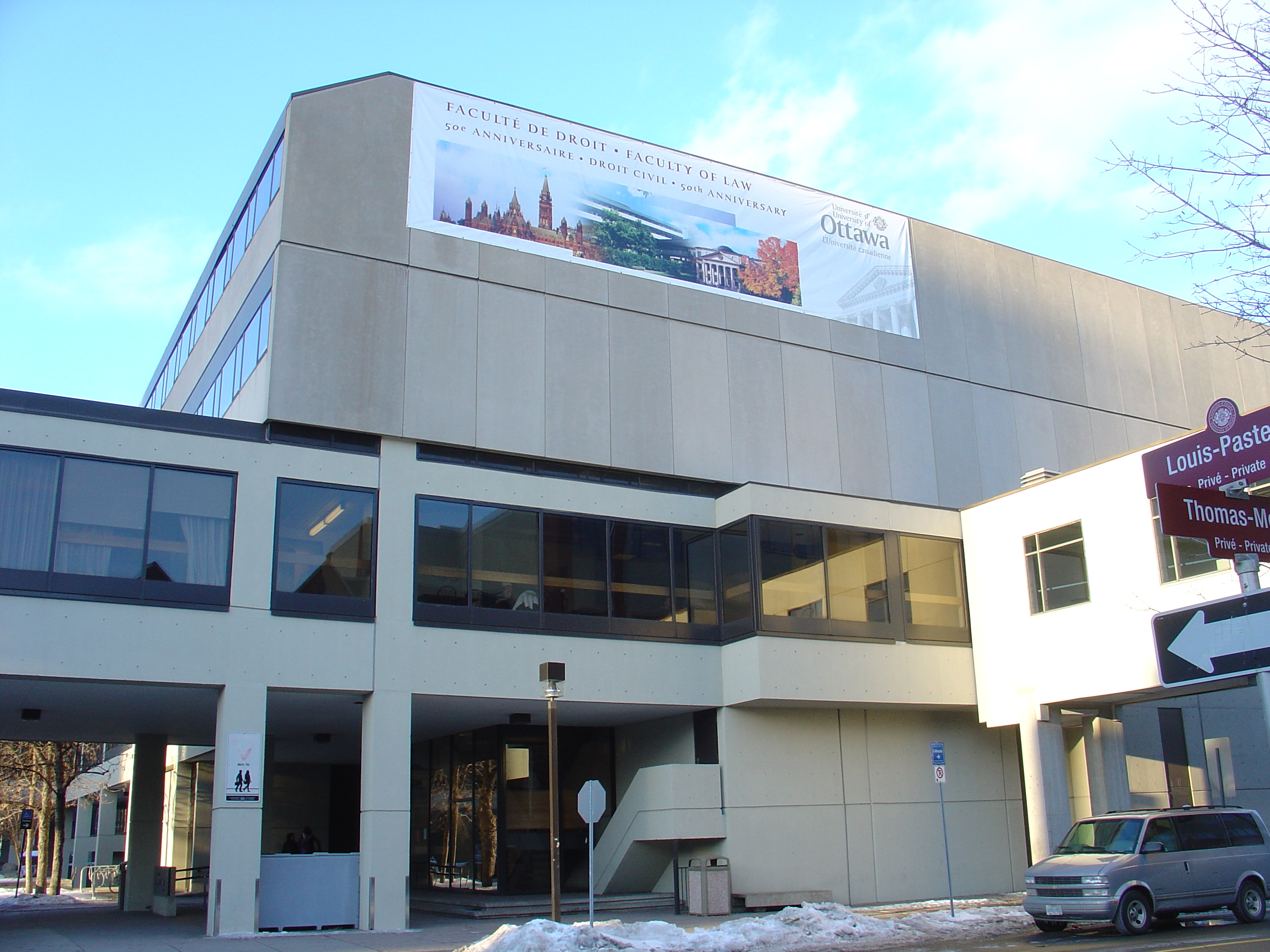 Fauteux Hall, the Faculty of Law building at the University of Ottawa. I took this picture personally.